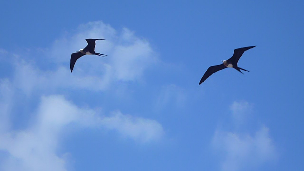 from wikipedia The Magnificent Frigatebird (Fregata magnificens) was sometimes previously known as Man O'War or Man of War, reflecting its rakish lines, speed, and aerial piracy of other birds. It is widespread in the tropical Atlantic, breeding colonially in trees in Florida, the Caribbean and Cape Verde Islands. It also breeds along the Pacific coast of the Americas from Mexico to Ecuador including the Galápagos Islands. It has occurred as a vagrant as far from its normal range as the Isle of Man, Denmark, Spain, England, and British Columbia. The Magnificent Frigatebird is 100 cm (39 inches) long with a 215 cm (85 inch) wingspan. Males are all-black with a scarlet throat pouch that is inflated like a balloon in the breeding season. Although the feathers are black, the scapular feathers produce a purple iridescence when they reflect sunlight (in contrast the male Great Frigatebird has a green sheen). Females are black, but have a white breast and lower neck sides, a brown band on the wings, and a blue eye-ring that is diagnostic of the female of the species. Immature birds have a white head and underparts. This species is very similar to the other frigatebirds and is similarly sized to all but the Lesser Frigatebird. However, it lacks a white axillary spur, and juveniles show a distinctive diamond-shaped belly patch. The Magnificent Frigatebird is silent in flight, but makes various rattling sounds at its nest. This species feeds mainly on fish, and also attacks other seabirds to force them to disgorge their meals. Frigatebirds never land on water, and always take their food items in flight. It spends days and nights on the wing, with an average ground speed of 10 km/h, covering 223±208 km before landing. They alternately climb in thermals, to altitudes occasionally as high as 2500 m, and descend to near the sea surface.